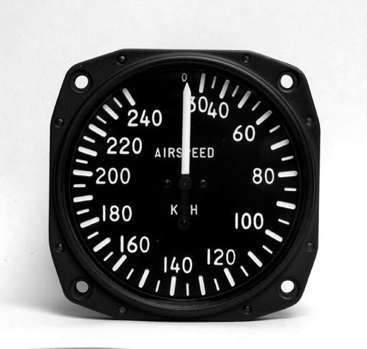 Air speed indicator.